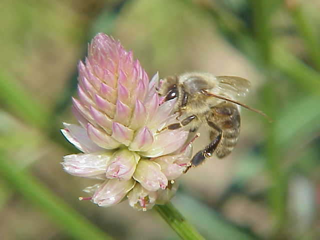 Species: Celosia argentea argentea Family: Amaranthaceae Image No. 1